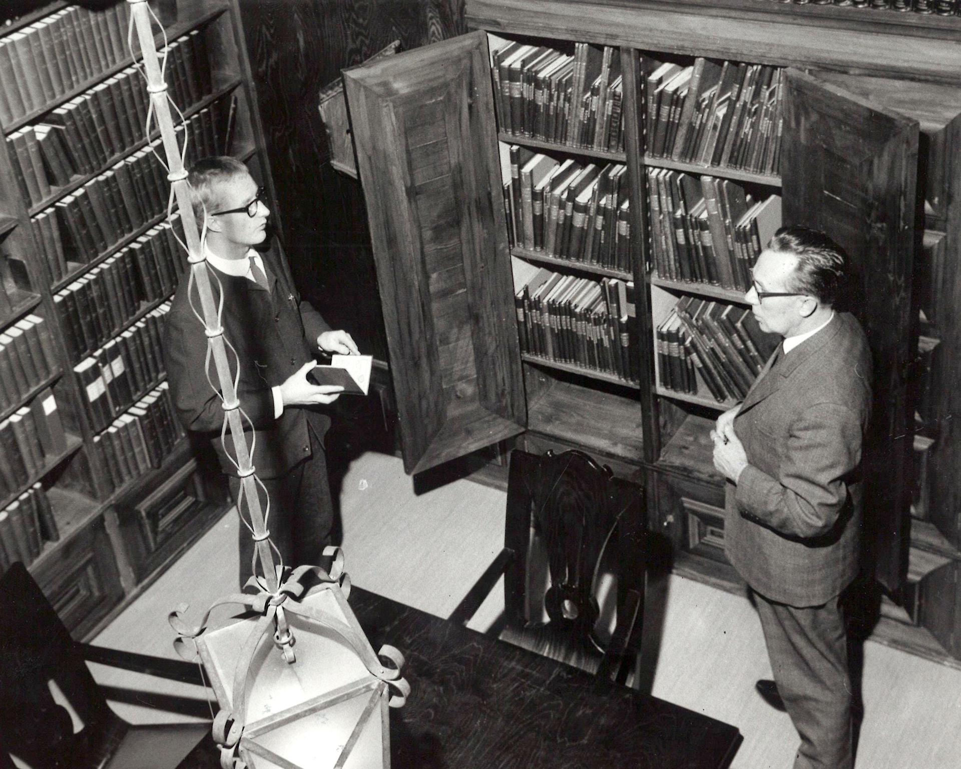 Photograph of the archivist Urpo Vento and Professor Toivo Vuorela at the archive of Suomalaisen Kirjallisuuden Seura (Finnish Literature Society).